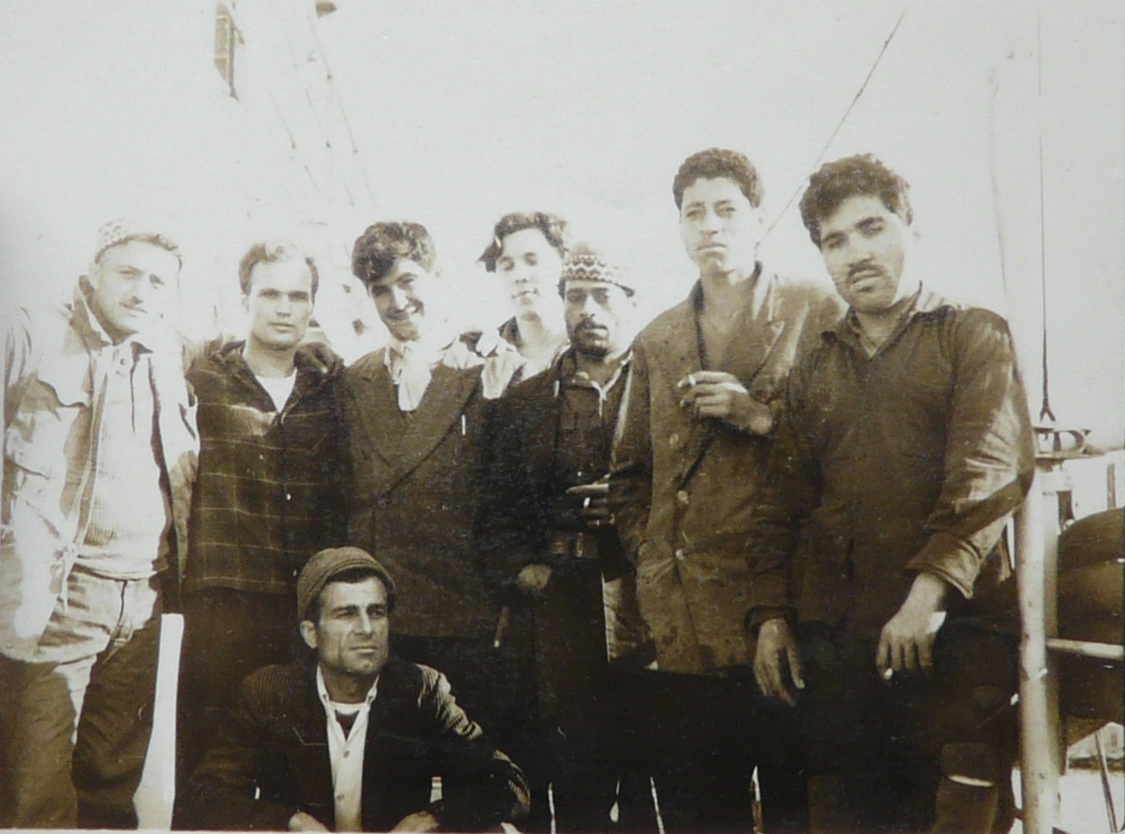 Two crew members of the Soviet ship Nezhin stoker Nikolay and electrician Shumilov and Syrians on board of this ship in Syria. Photo maden between June 1956 and 1957.